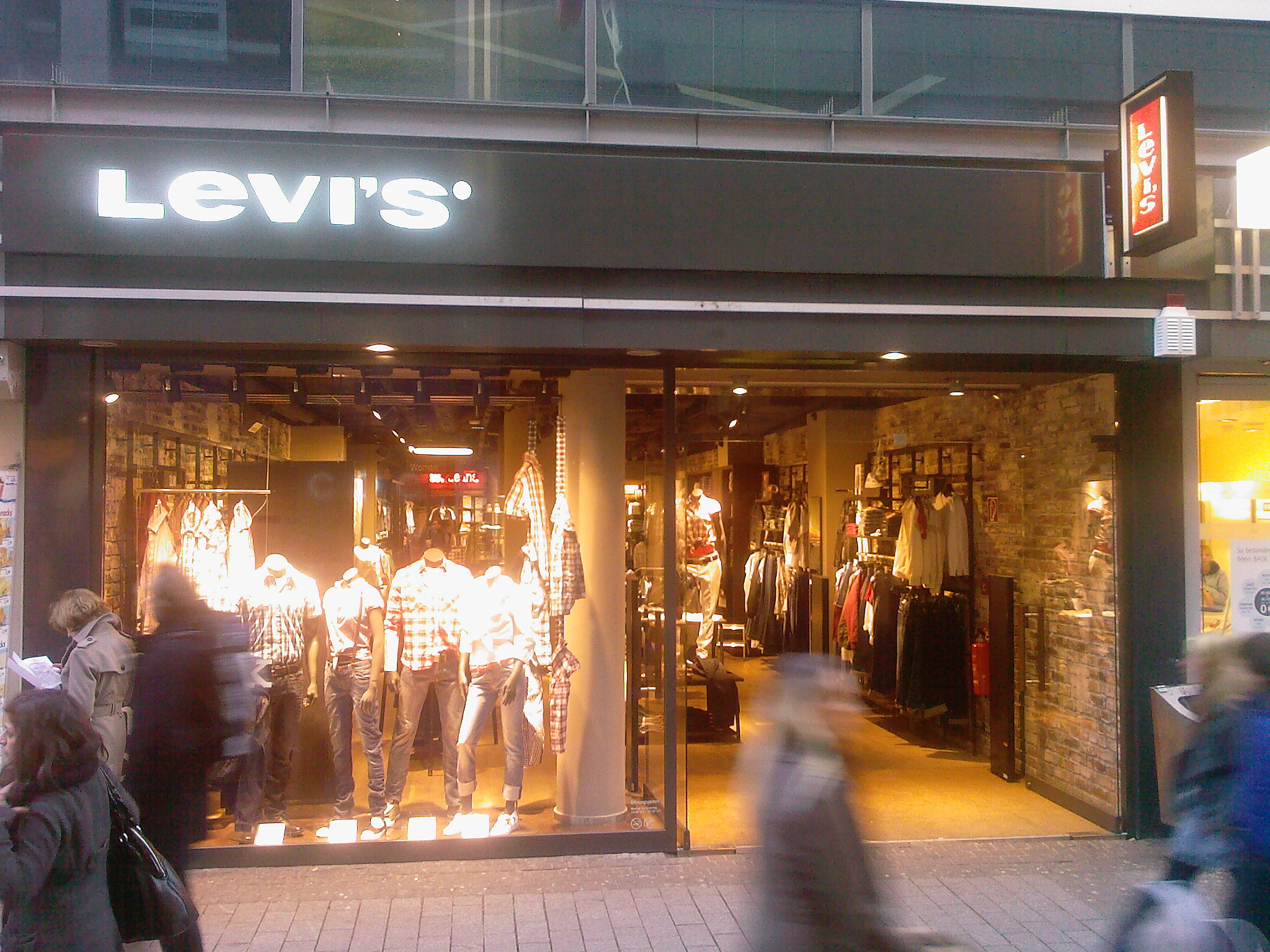 Levi's Store, Hohe Straße, Cologne, Germany